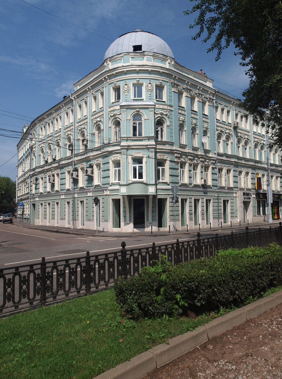 Tverskoy Boulevard, Moscow - corner of Malaya Bronnaya Street.